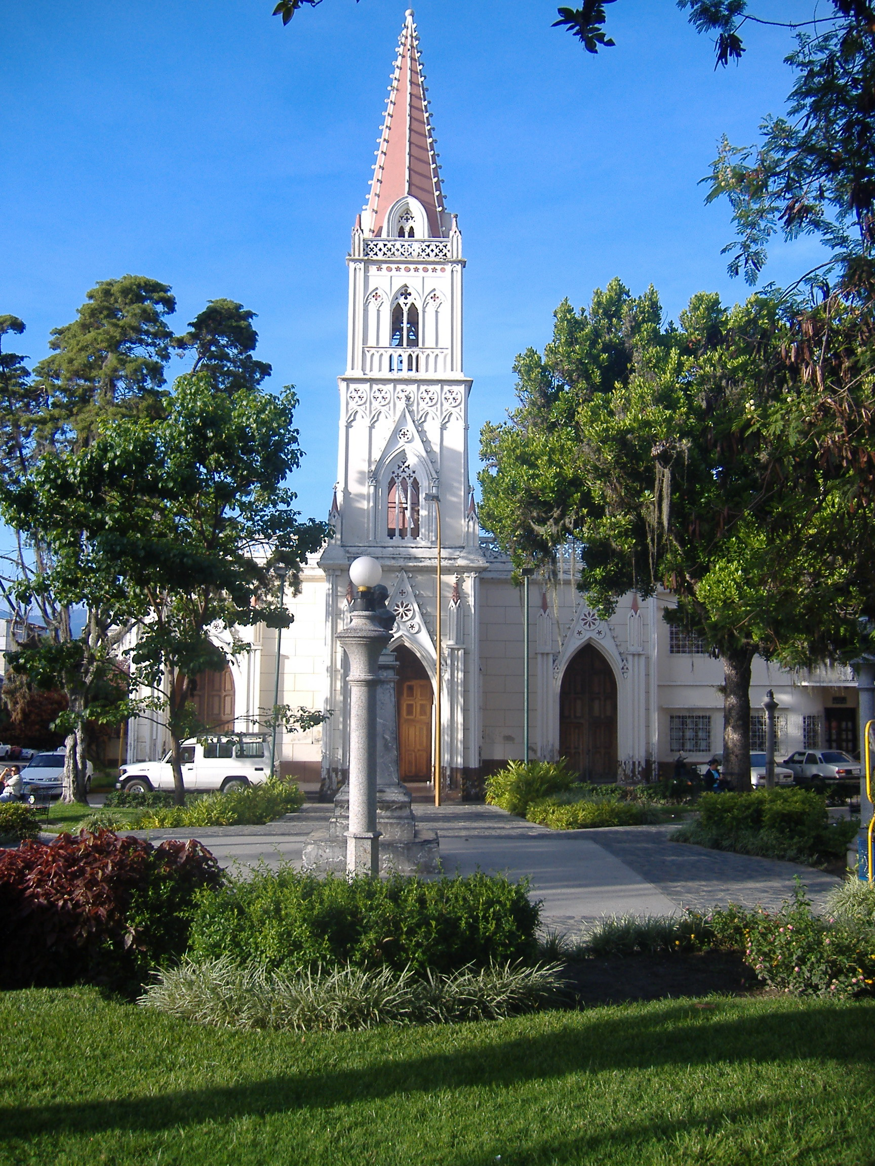 Photo of the Iglesia del Llano's (Del Llano church) front located in Merida, Venezuela. Photo taken on december 2005 by Jorge Paparoni. For external use, please cite photographer and sourse. Public domain